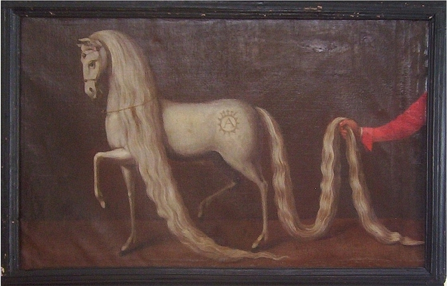 Painting by Peter de Saint-Simon, 1644